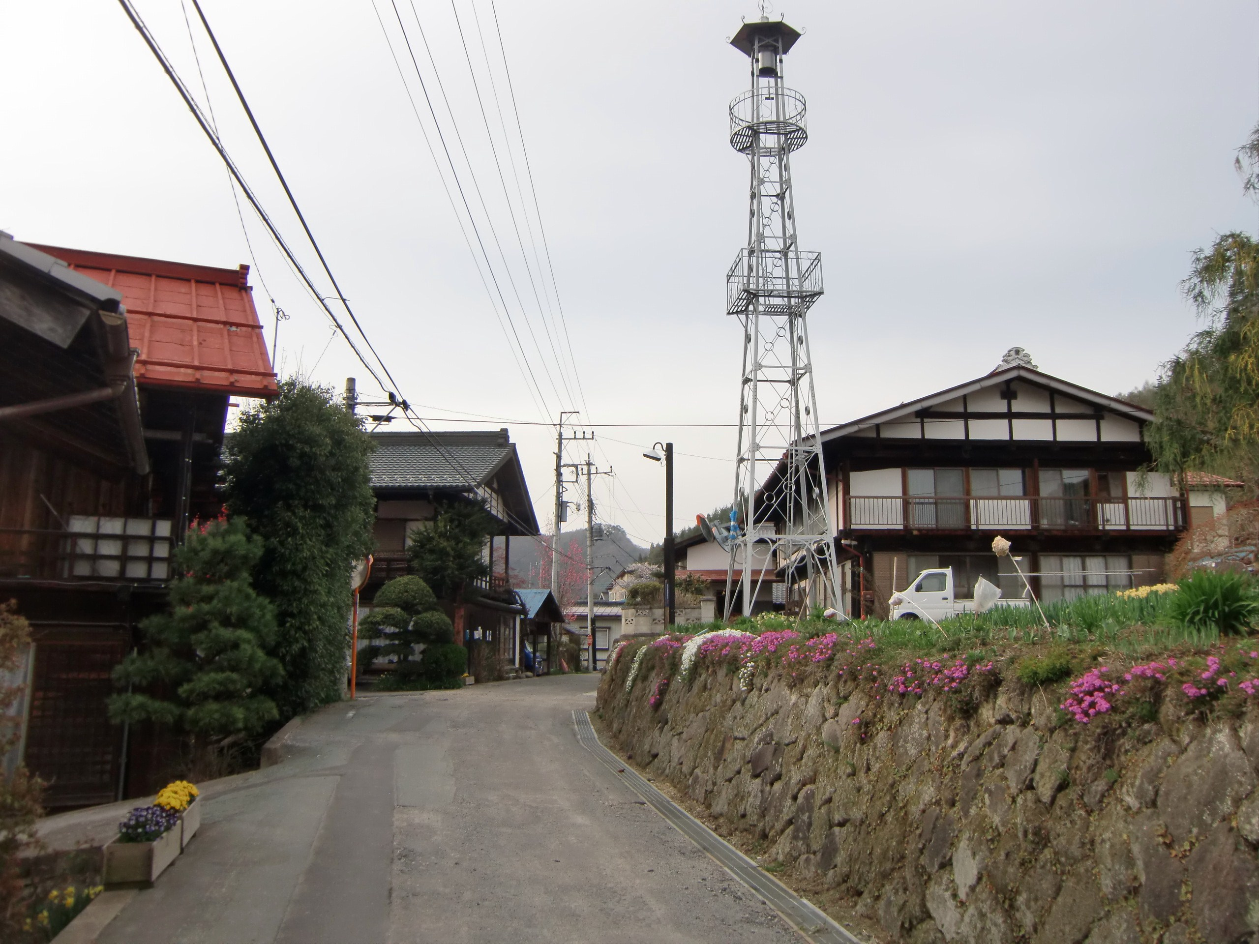 Central Kuni-Akaiwa settlement in Nakanojo-town(old Kuni-vill), Gunma-pref, JAPAN. This settlement registered as a Important Preservation Districts for Groups of Historic Buildings in Japan.